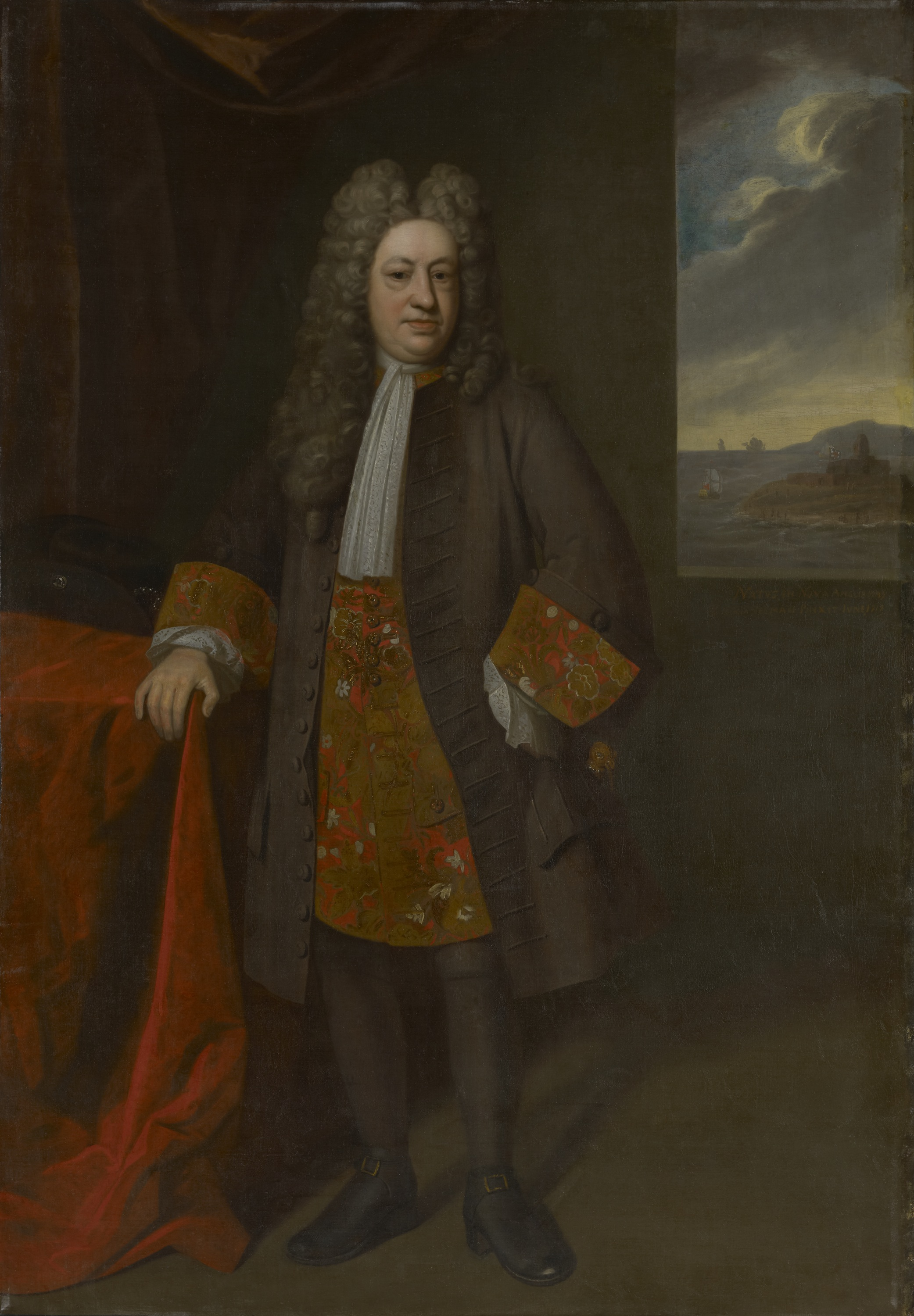 Elihu Yale, British merchant and slave trader and benefactor of the Collegiate School of Connecticut, renamed Yale College in his honor. Oil on canvas. 85 in. x 59 in. Courtesy of the Yale University Art Gallery, Yale University, New Haven, Conn.